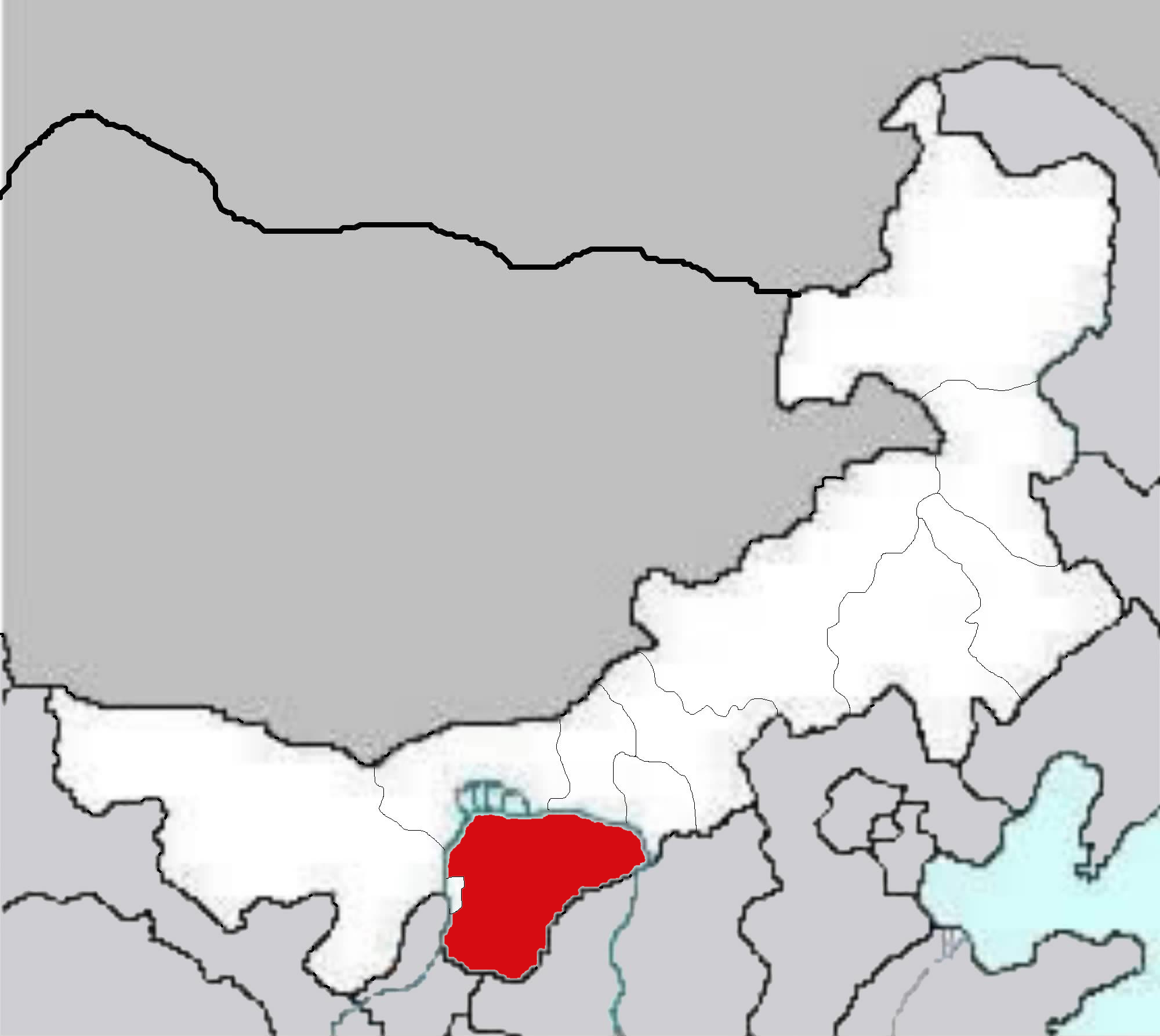 The Ordos Desert region, located in the south of Inner Mongolia.